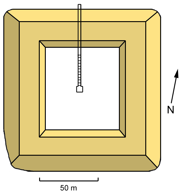 Plan of the Pyramid of Khui